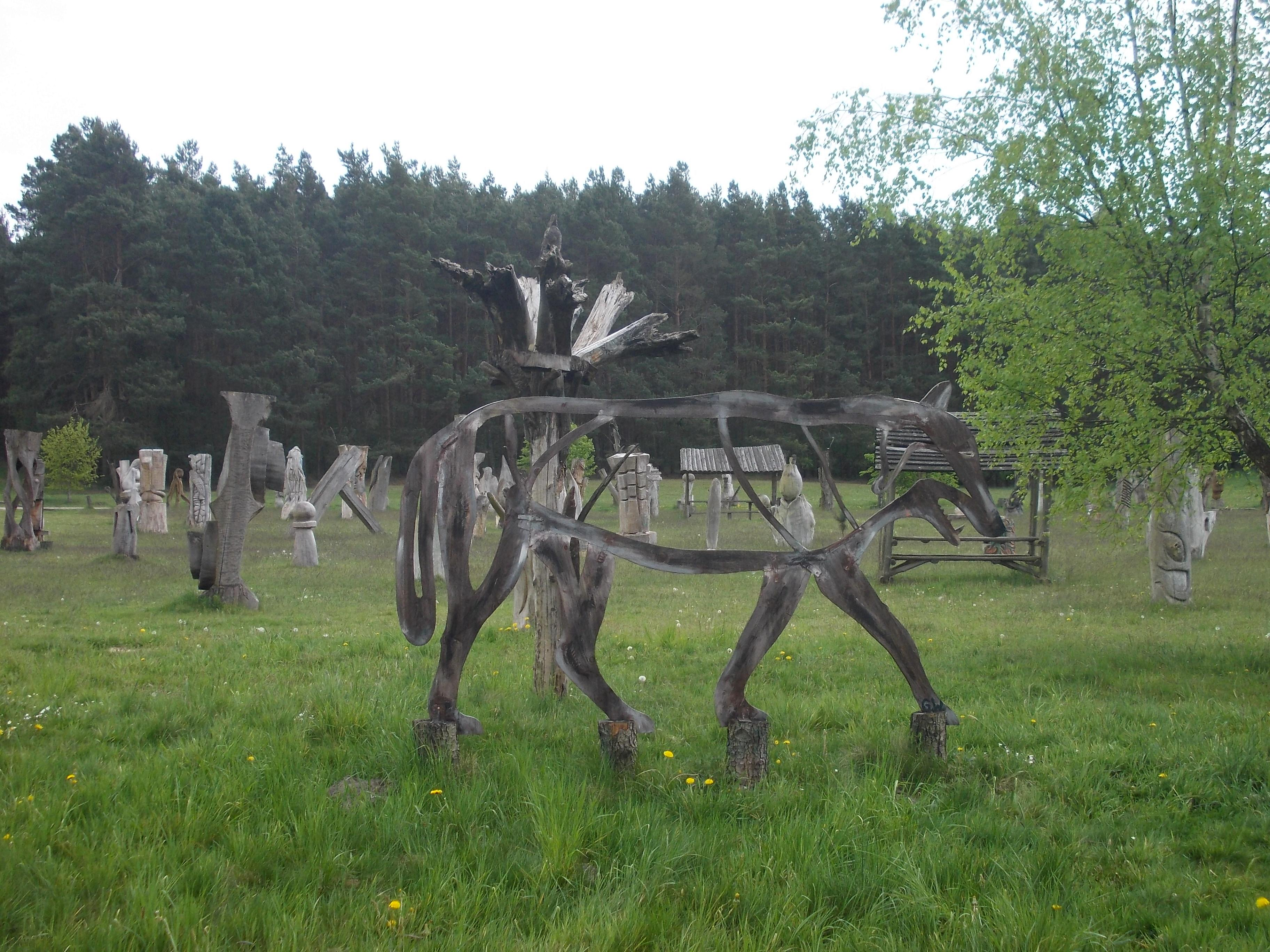 Sculpture site near Tornau (Gräfenhainichen, Wittenberg district, Saxony-Anhalt)